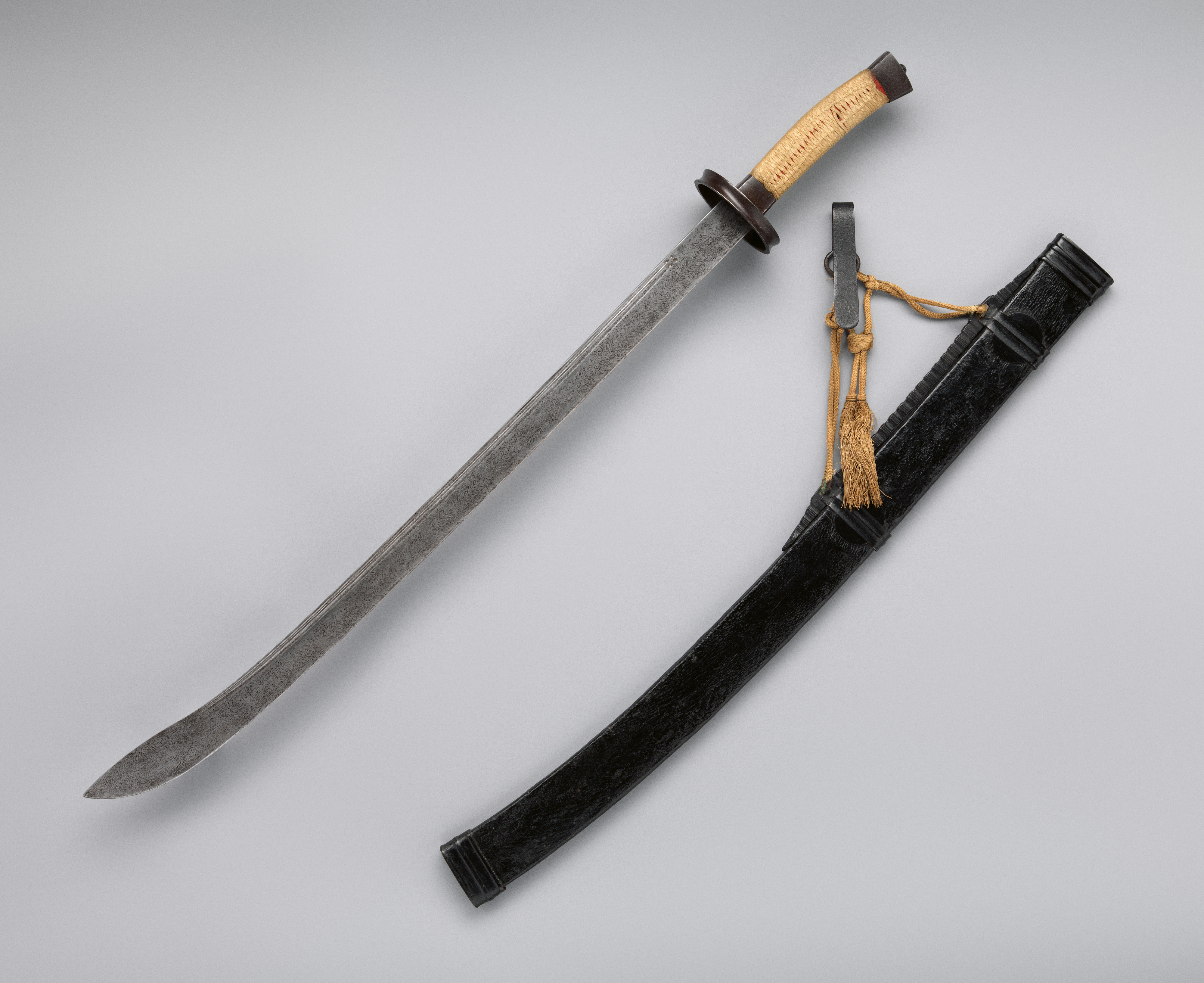 Chinese; Saber with scabbard and belt hook; Swords